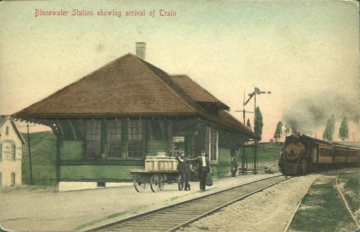 The Binnewater station on the Wallkill Valley branch of the West Shore Railroad, taken from a postcard printed ca. 1913.